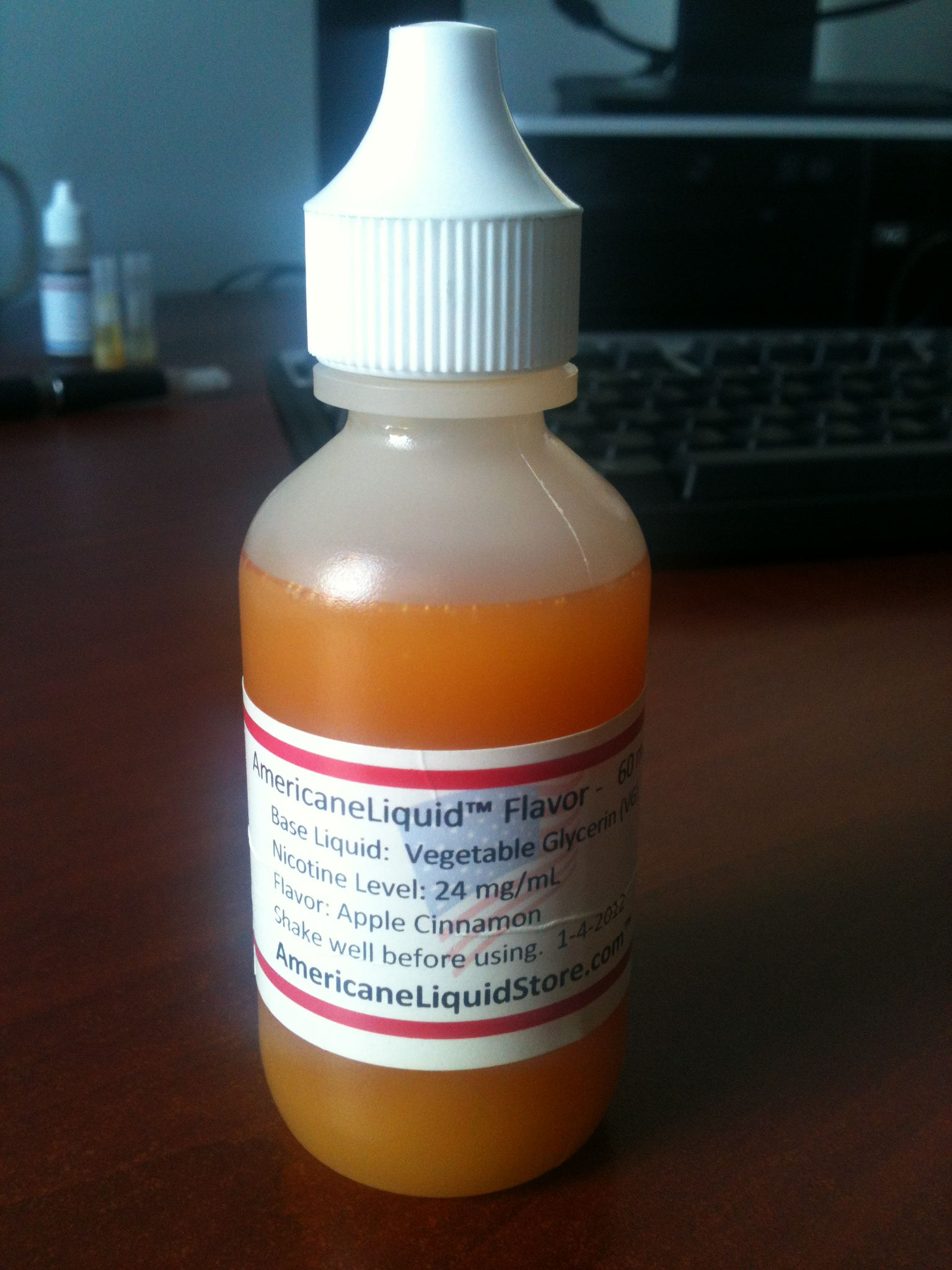 A bottle containing pre-mixed e-liquid. Bottle lists base liquid, nicotine level, flavor and company name.